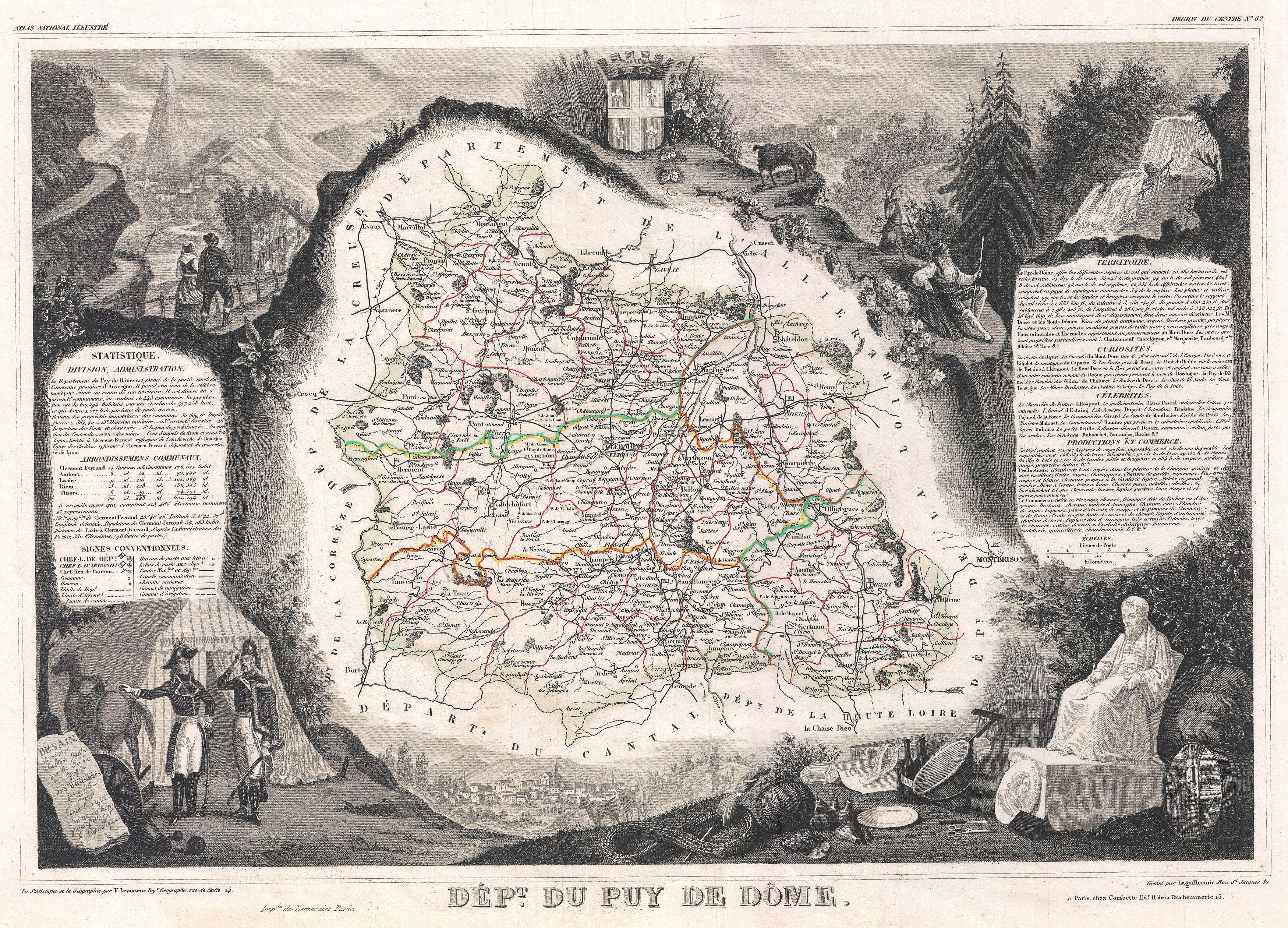 This is a fascinating 1852 map of the French department of Puy De Dome, France. This mountainous department includes Auvergne, one of the leading cheese regions in France. Here you can find a wide variety of cheeses, from Cantal, a pressed cheese, to a number of Bleu Cheeses, to local specialties, such as Savaron and Bleu de Laqueille. The region is also known for its spectacular volcanic rock formations. The map proper is surrounded by elaborate decorative engravings designed to illustrate both the natural beauty and trade richness of the land. There is a short textual history of the regions depicted on both the left and right sides of the map. Published by V. Levasseur in the 1852 edition of his Atlas National de la France Illustree.